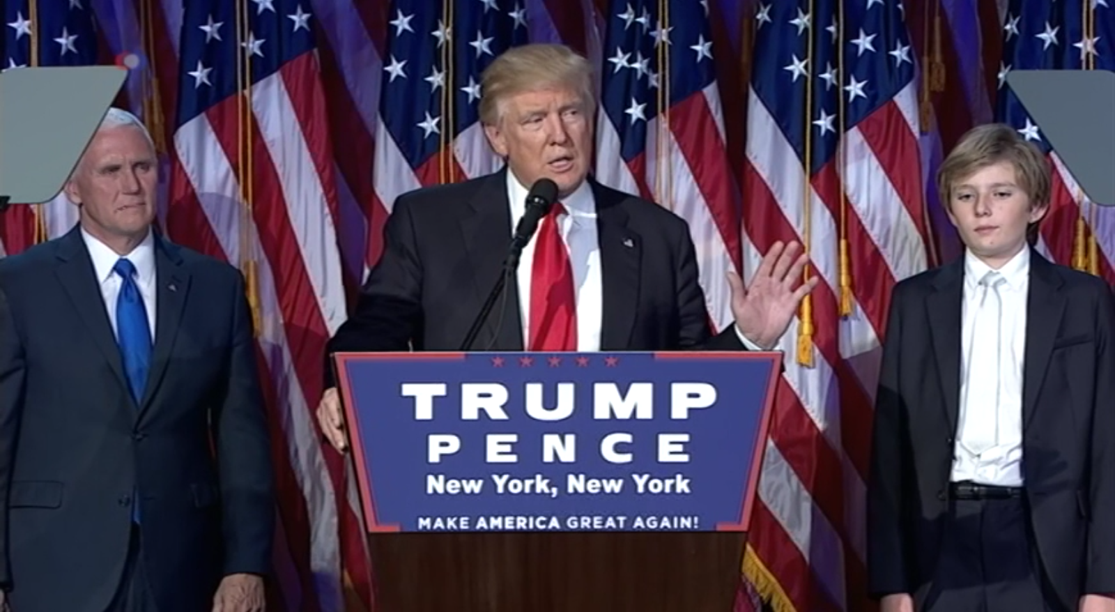 Following Hillary Clinton's concession, Republican Donald Trump spoke at his campaign headquarters in New York, calling for "America to bind the wounds of division."